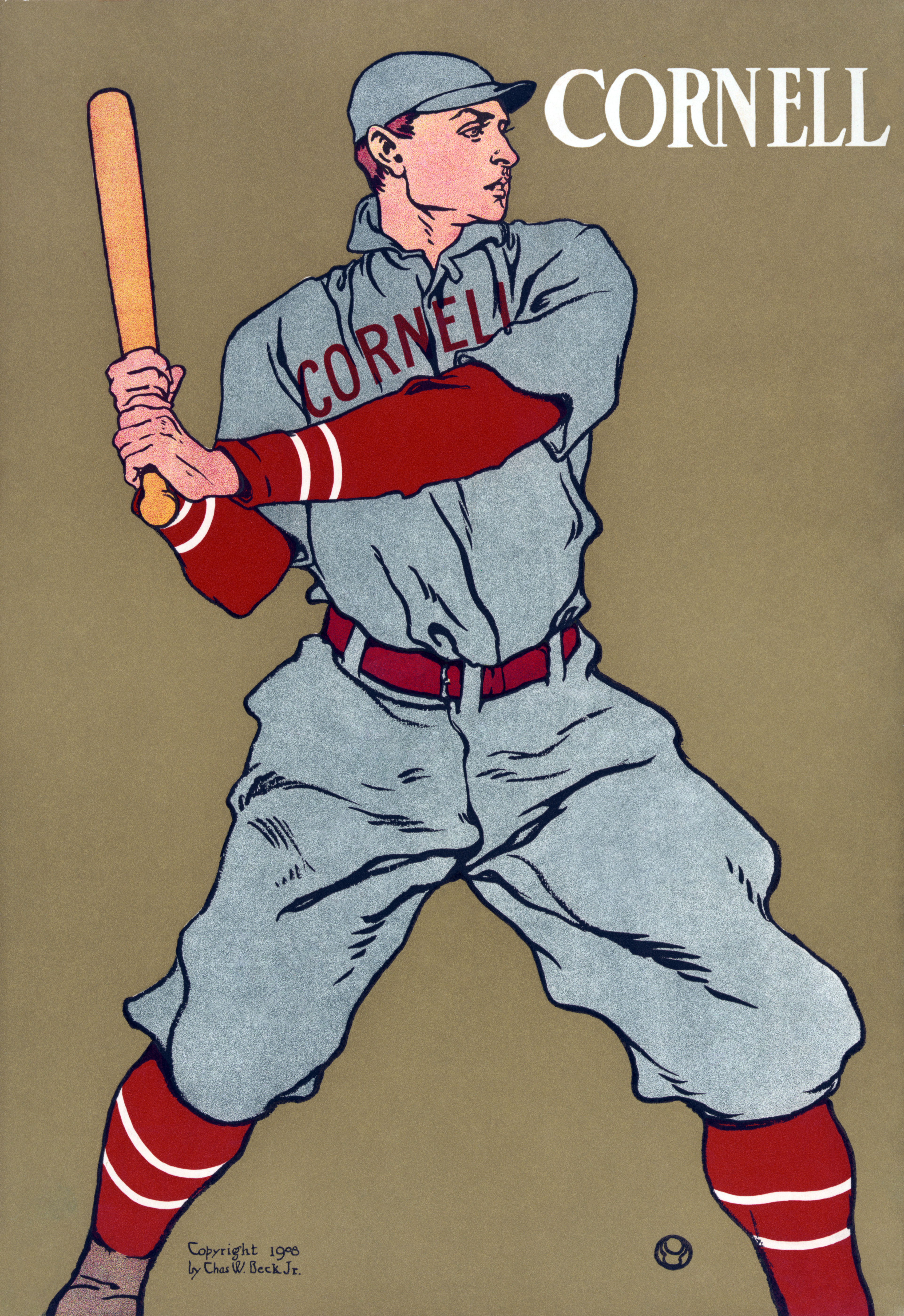 "Cornell" Print shows a baseball player, from Cornell University, holding bat. 1 print (poster) : chromolithograph.